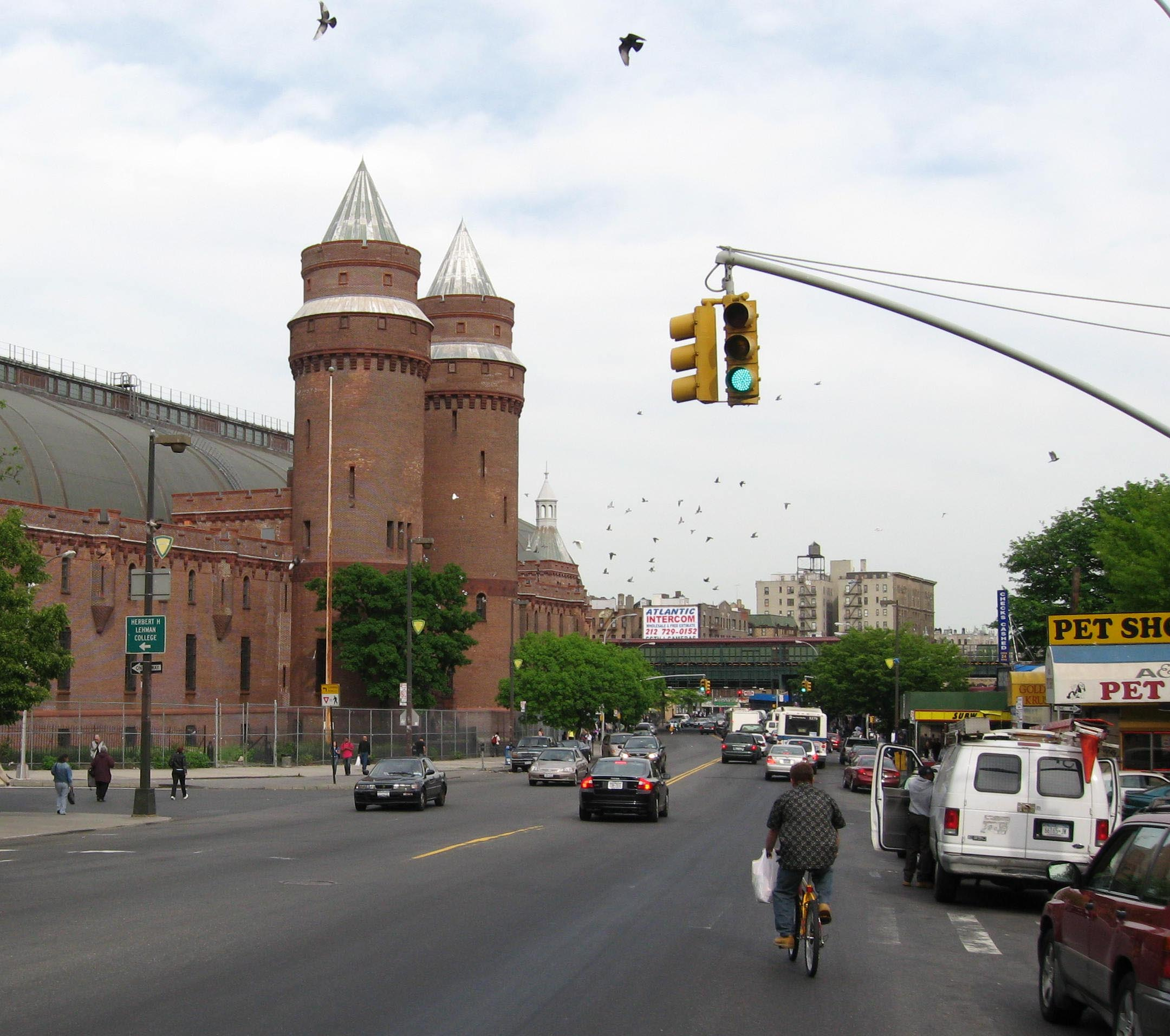 Looking east on Kingsbridge Road in Kingsbridge, Bronx on a cloudy May 14 afternoon at Kingsbridge Armory and Jerome Avenue station.